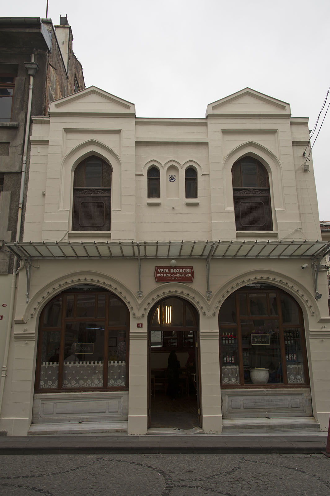 From the Wikipedia article: In 1876, brothers Haci Ibrahim and Haci Sadik established a boza shop in the Istanbul district of Vefa, close to the then center of entertainment, Direklerarası. This boza, with its thick consistency and tart flavor, became famous throughout the city, and is the only boza shop dating from that period still in business today. The firm is now run by Haci Sadik and Haci Ibrahim's great-great-grandchildren.